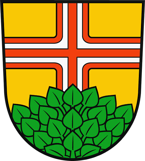 Coat of arms of Kiekebusch, Part of Schönefeld